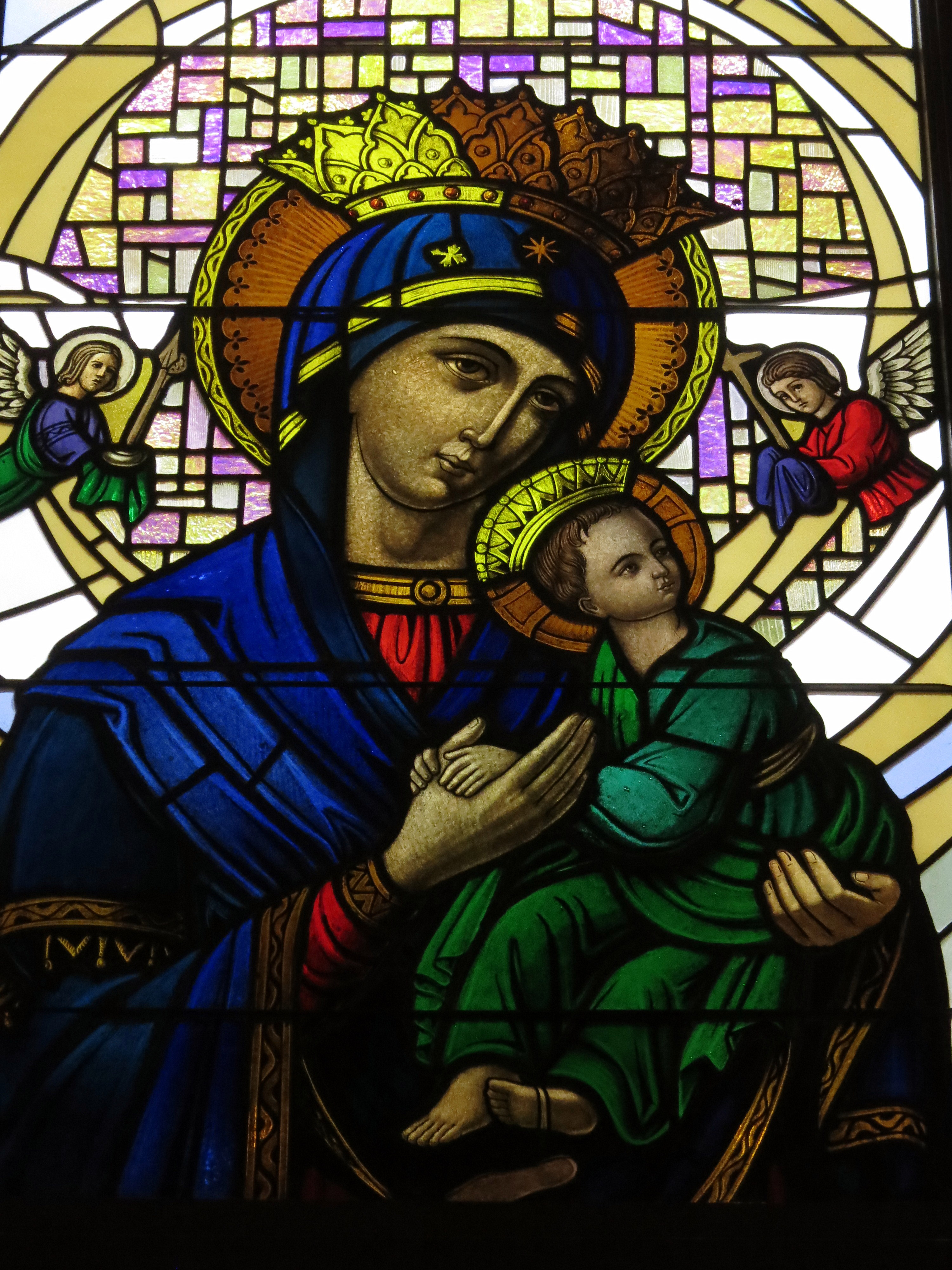 Our Lady of Perpetual Help Catholic Church (Grove City, Ohio) - stained glass, Our Lady of Perpetual Help